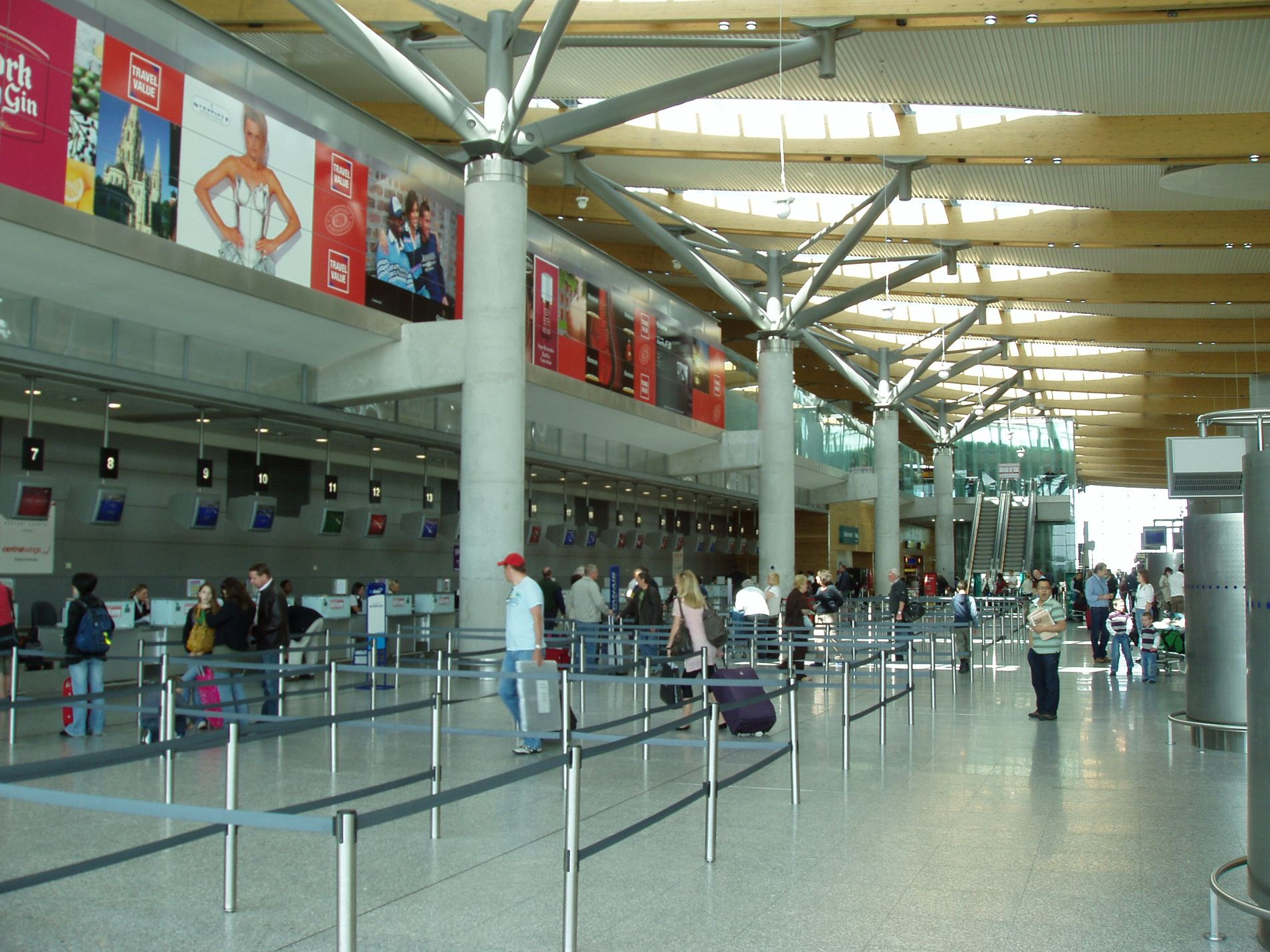 Check-in hall. Jura gray-blue. Irland. Cork Airport.